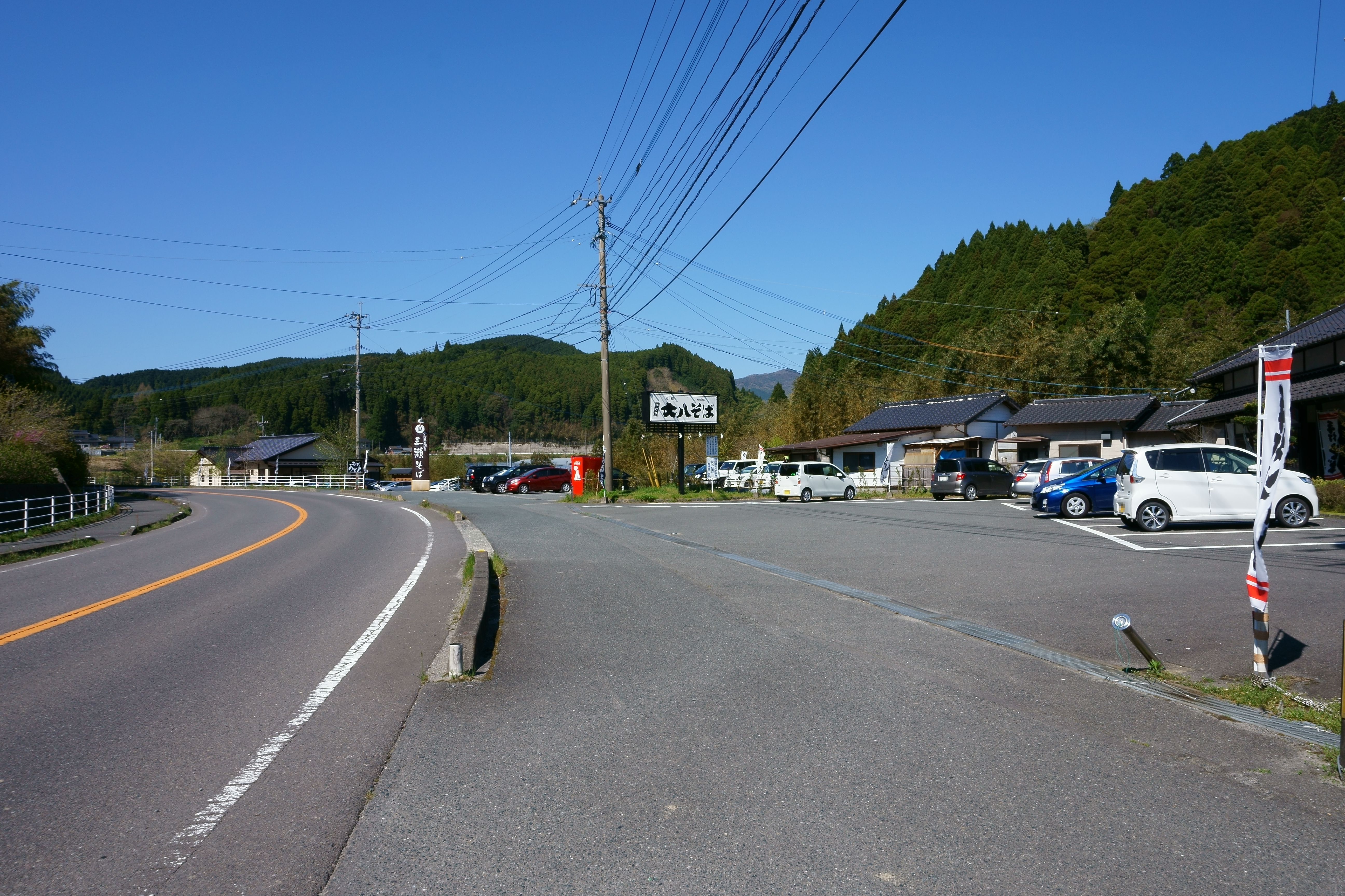 Soba(buckwheat noodles) restaurants on side of Route 263 in Mitsuse, Saga city, Saga prefecture.